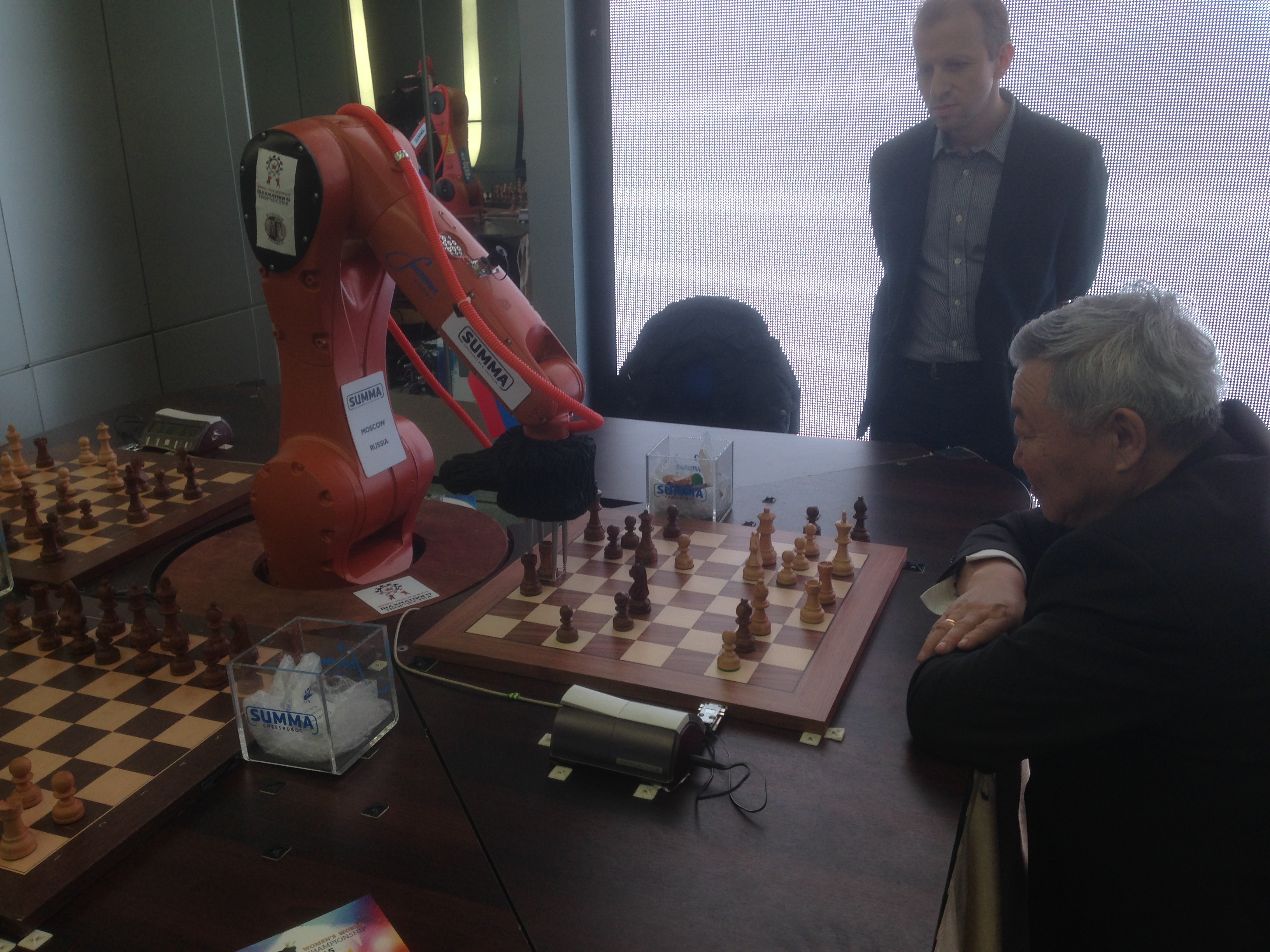 The chess robot presented in the Women's World chess Championship 2015 to Sochi. Cultural entertainment center "Galaxy", Krasnaya Polyana.